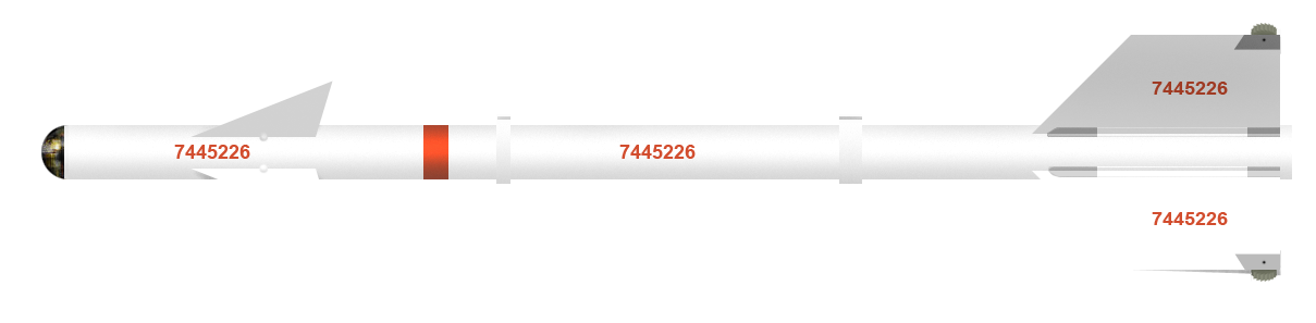 Vympel R-13 (AA-2 Atoll) air to air missile scheme